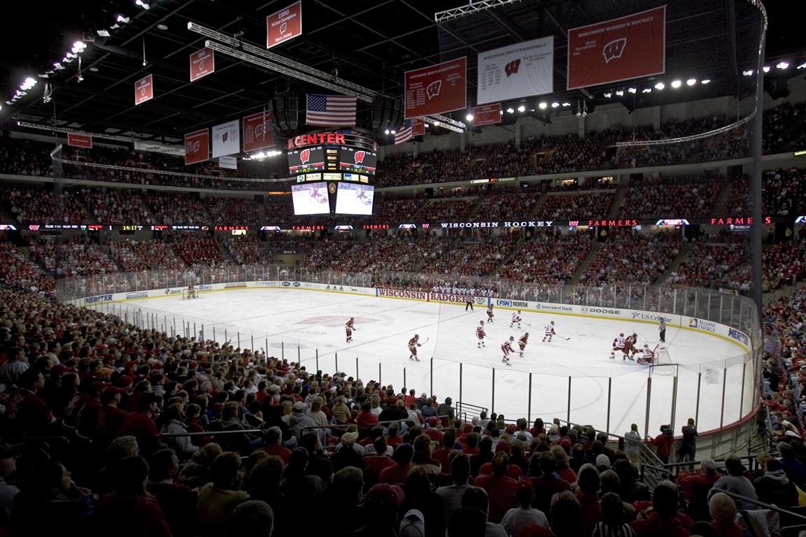 Inside the Kohl Center during a men's ice hockey game. Men's hockey game at the Kohl Center.